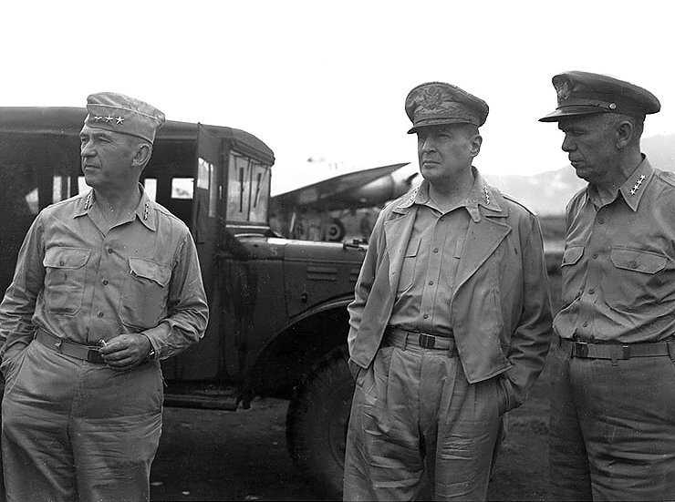 Lieutenant General Walter Krueger, Commanding General, U.S. Sixth Army (left), General Douglas MacArthur, Supreme Commander, Allied Forces, Southwest Pacific Area, and General George C. Marshall, Chief of Staff, U.S. Army (right), at a field headquarters in the Southwest Pacific Area